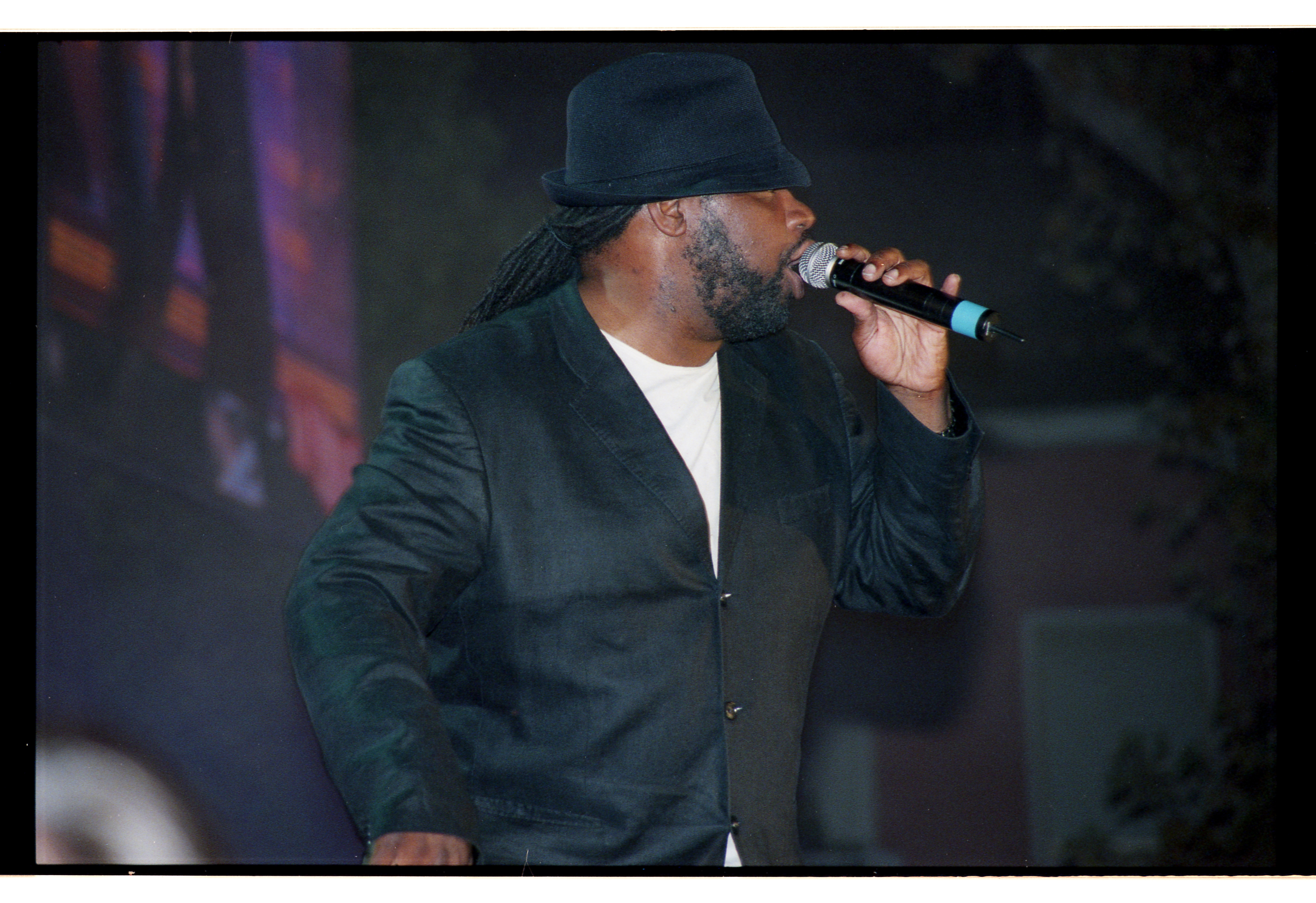 Festivalshow - Summer 2012